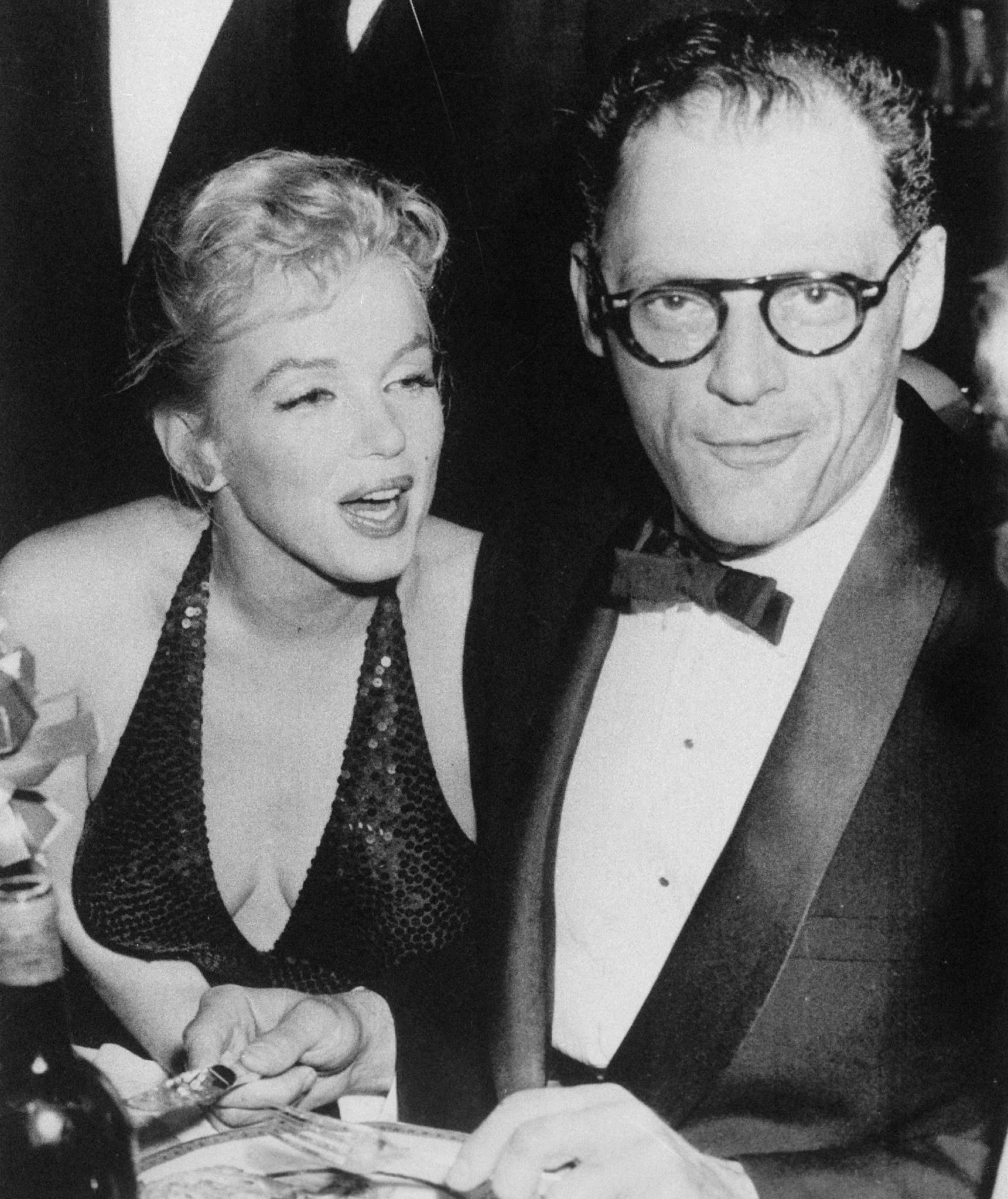 Photo of Marilyn Monroe and Arthur Miller at the April in Paris Ball held at New York's Waldorf-Astoria in 1957.